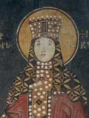 Catherine, Queen of Serbia